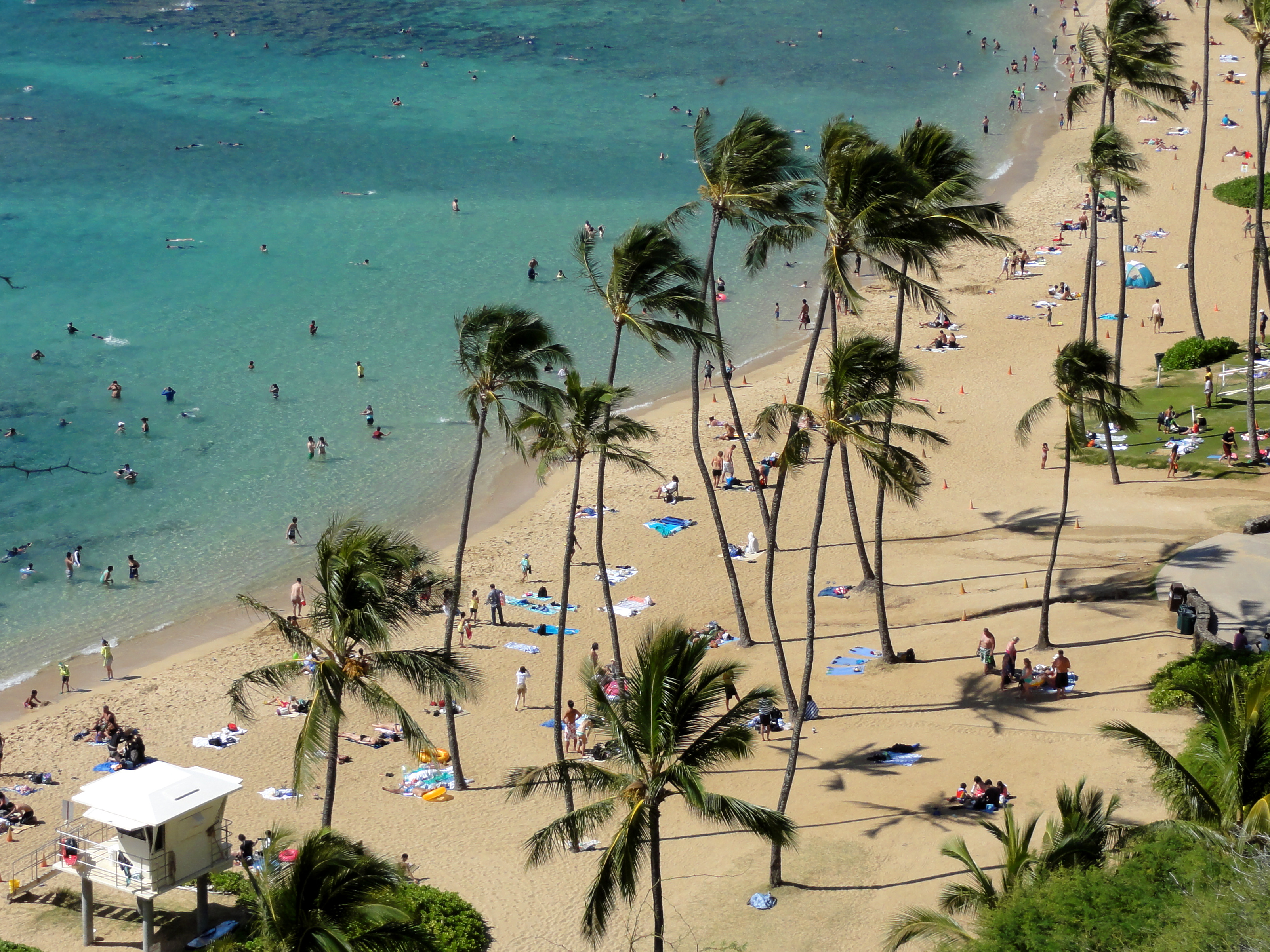 Hanauma Bay Beach - Hawaii